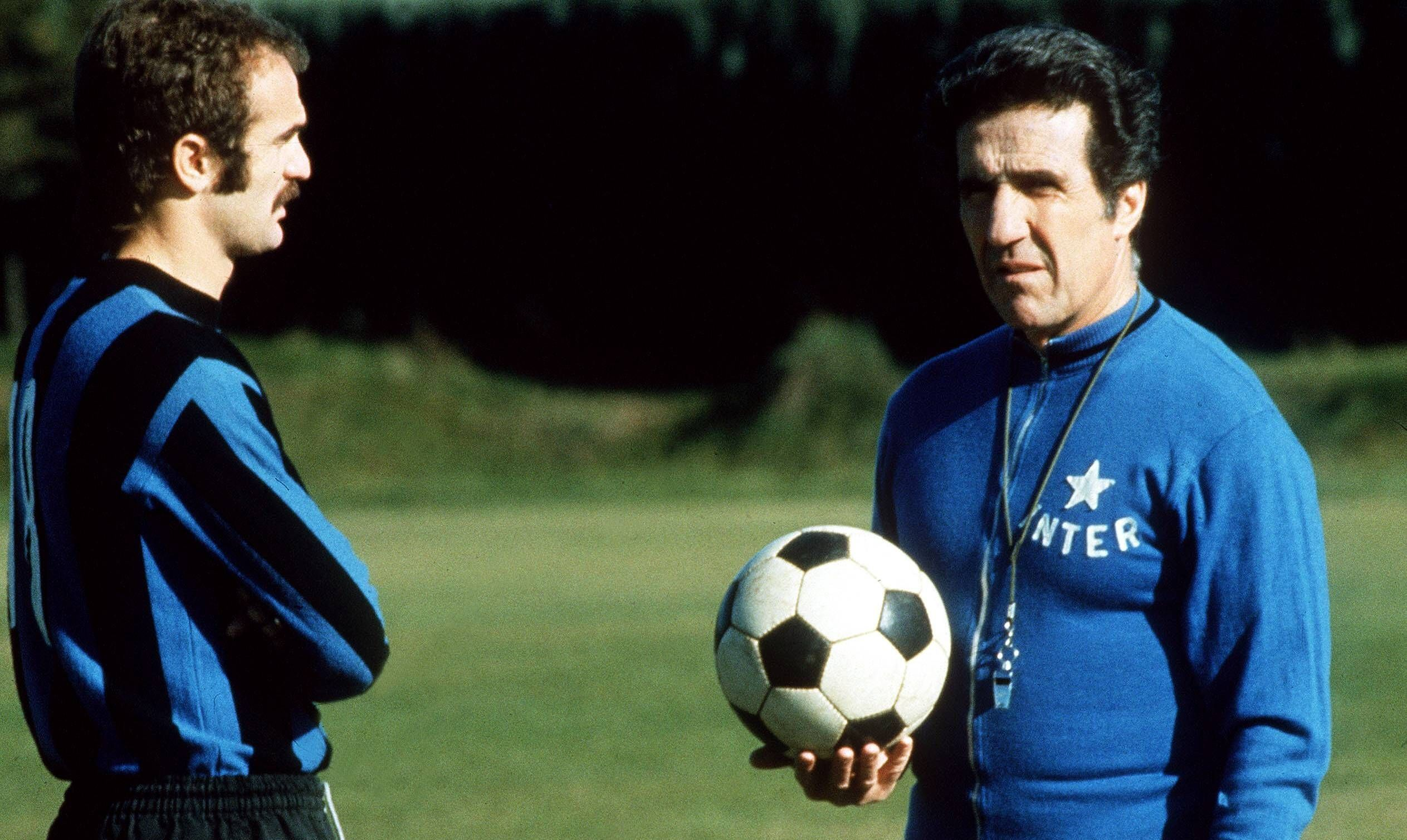 "La Pinetina" Training Centre, Appiano Gentile (Como), 1973. From left to right: Italian footballer Alessandro "Sandro" Mazzola and French-Argentine football manager Helenio Herrera in training with Inter Milan in the 1973–74 season.